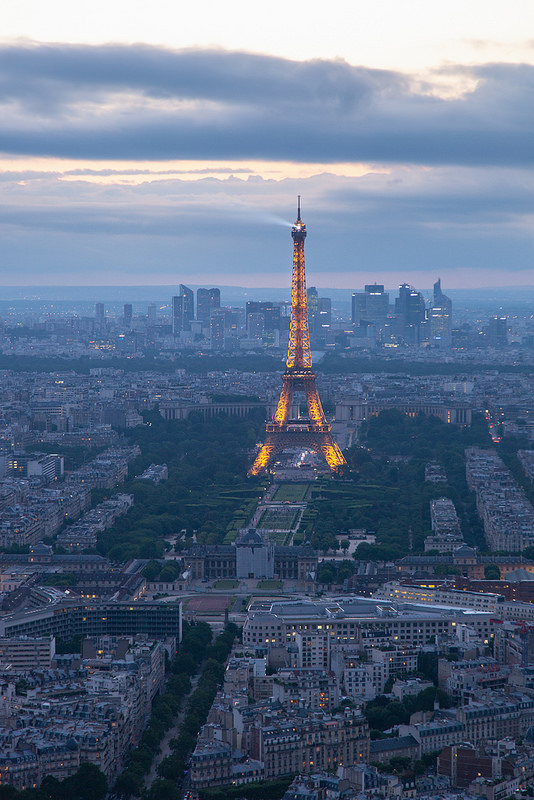 The Eiffel Tower lit up at night in Paris, France.